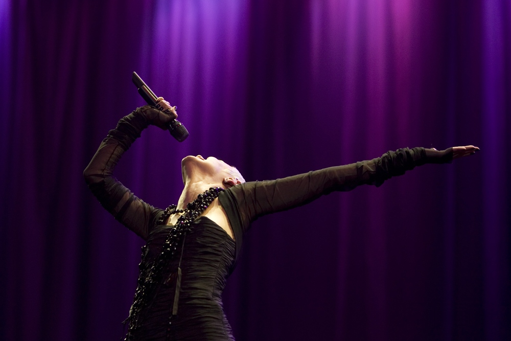 Mariza at Pavilhão Atlântico, Lisbon